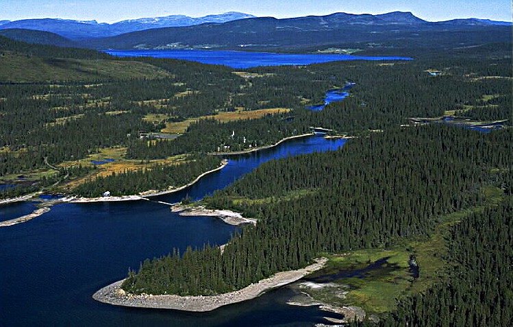 The village Ankarede and the lakes Stor-Blåsjön (closest) och Ankarvattnet (in the distain) in Strömsund municipality, Jämtland county, Sweden